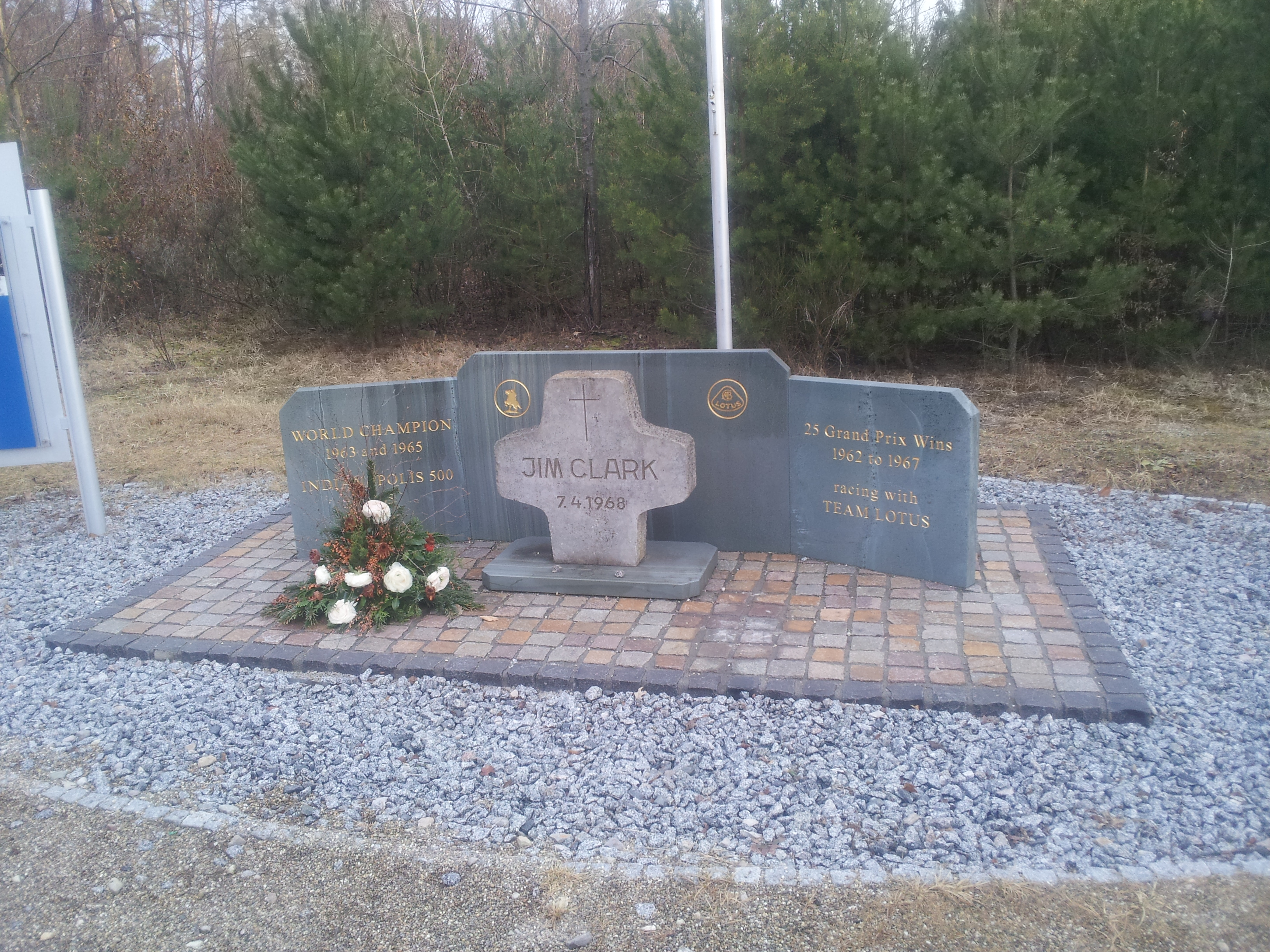 Jim Clark tribute near Hockenheimring track. Other information Took the picture myself. null